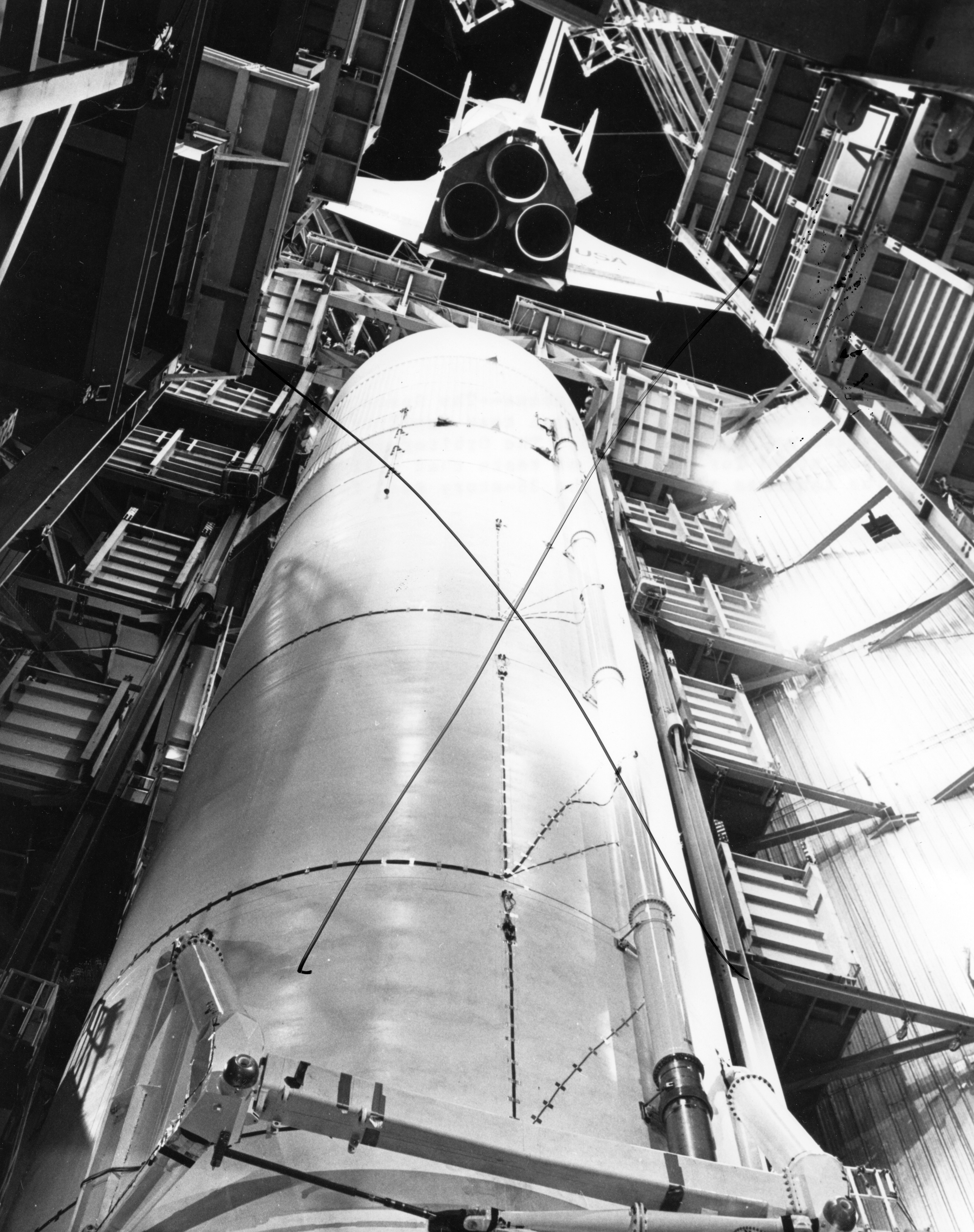 Original description: NASA NATIONAL AERONAUTICS AND SPACE ADMINISTRATION FOR RELEASE: May 8, 1973 PHOTO NO. 78-HC-199 ENTERPRISE LOWERED INTO TEST STAND Marahall Space Flight Center, Alabama -- The Space Shuttle Orbiter Enterprise is lowered into the vibration test facility at the Marshall Space Flight Center on April 21, 1978. The Orbiter joined the large External Tank in the stand for a series of tests that will run through November 1978. The tank was places in the 36-story test facility the day before.